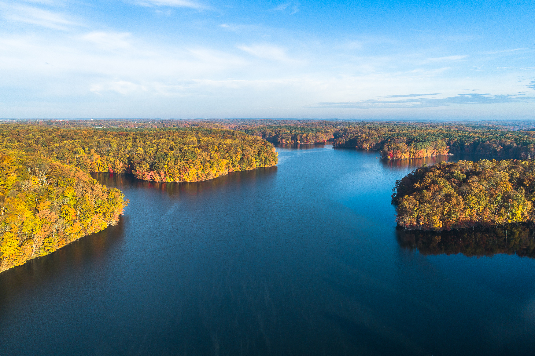 Aerial view of the southernmost section of Liberty Reservoir.